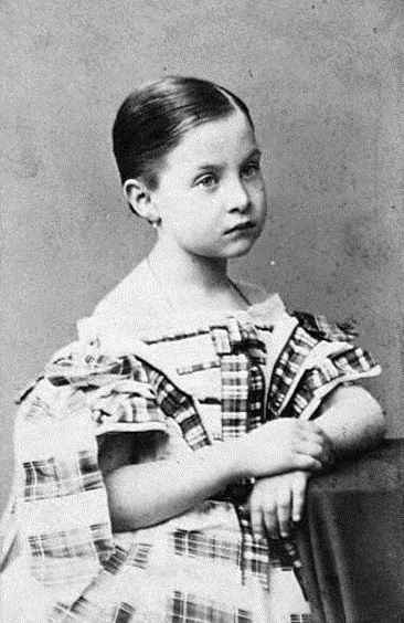 Queen Olga of Greece, nee Grand-duchess Olga of Russia, as a child.